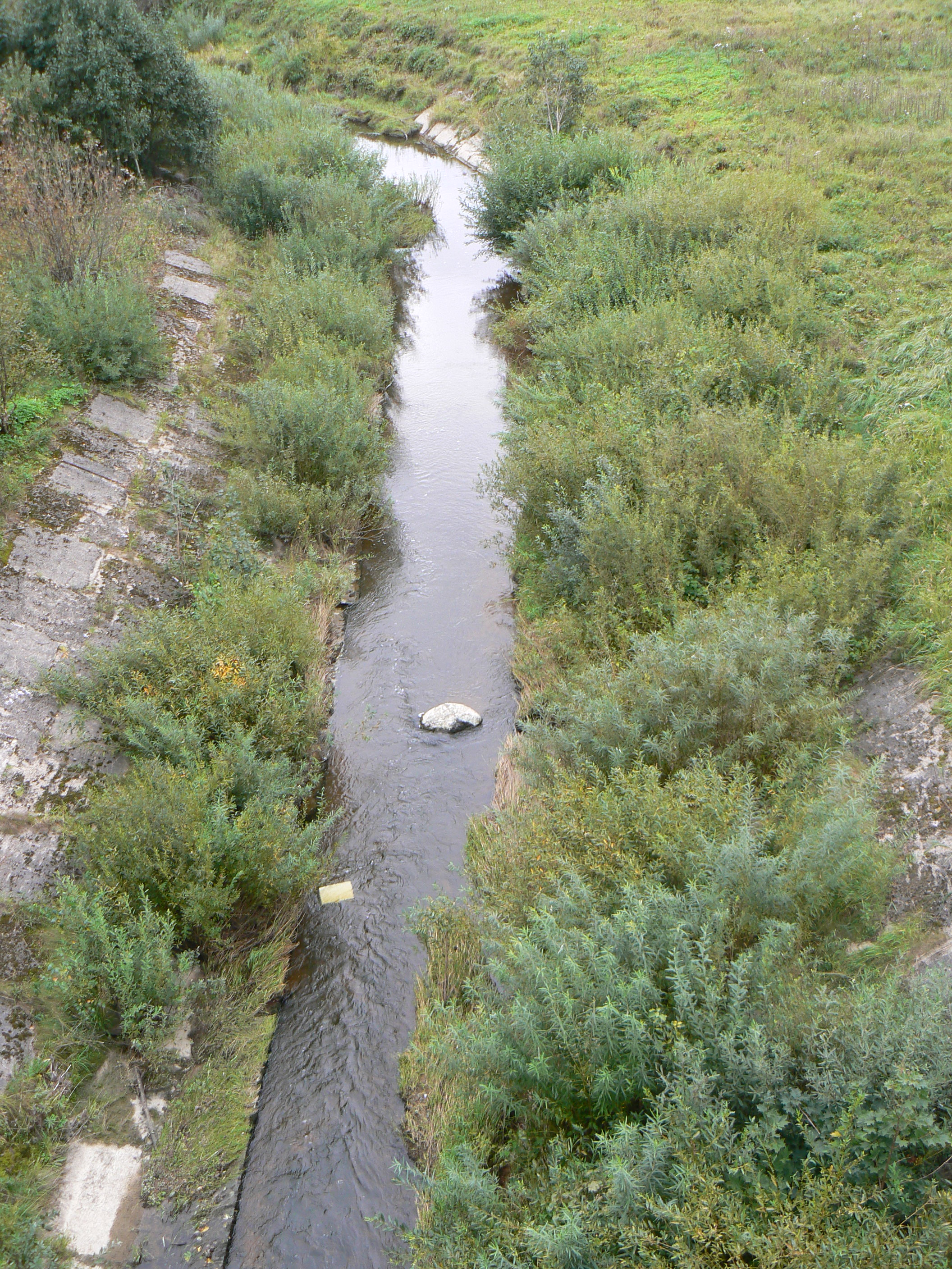 River Ančia from highway A1